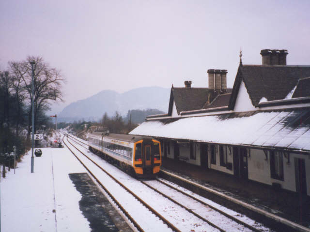 Dunkeld and Birnam, a Regional Railway Express Sprinter (Cl.158) departs for Perth